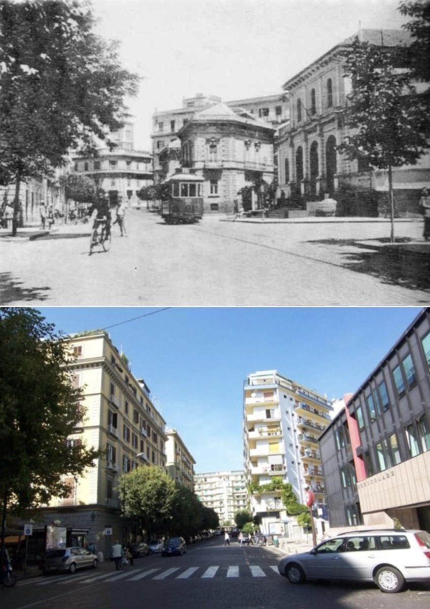 Via Morghen (a street in the Vomero district of Naples) in 1940 and in 2008.